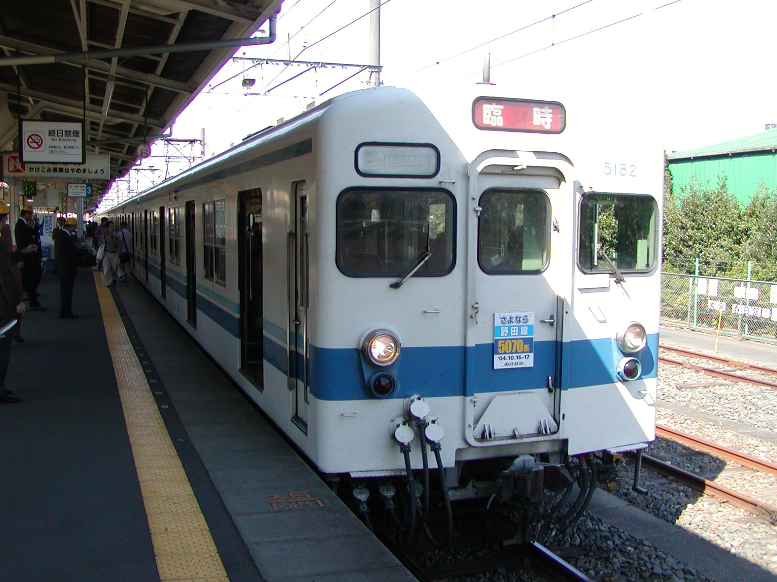 Tobu Railway 5070 series EMU set 5182 with a special "Farewell 5070 series" headboard on the Tobu Noda Line